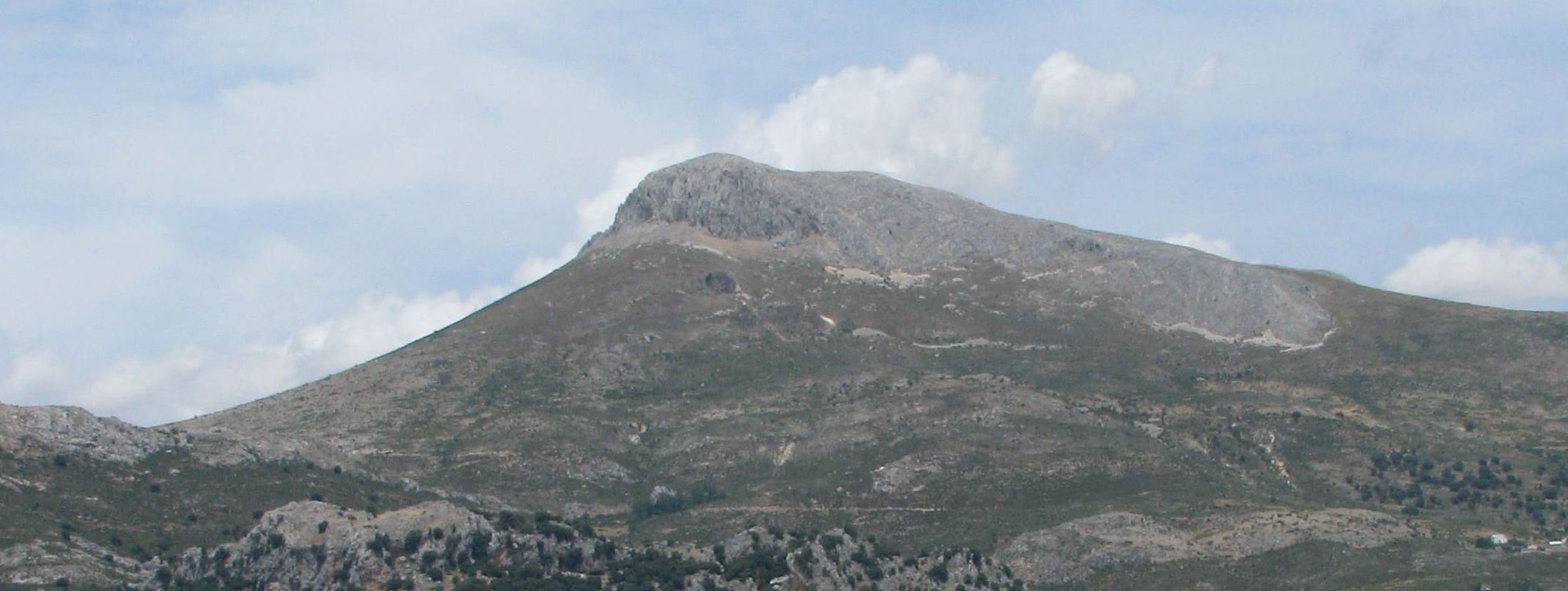 Peña de la Cruz (it means Cross' Peak) Sierra Arana's higher point 2027 meters (6650 feet) seen from Puerto de la Mora (Huétor Santillán).